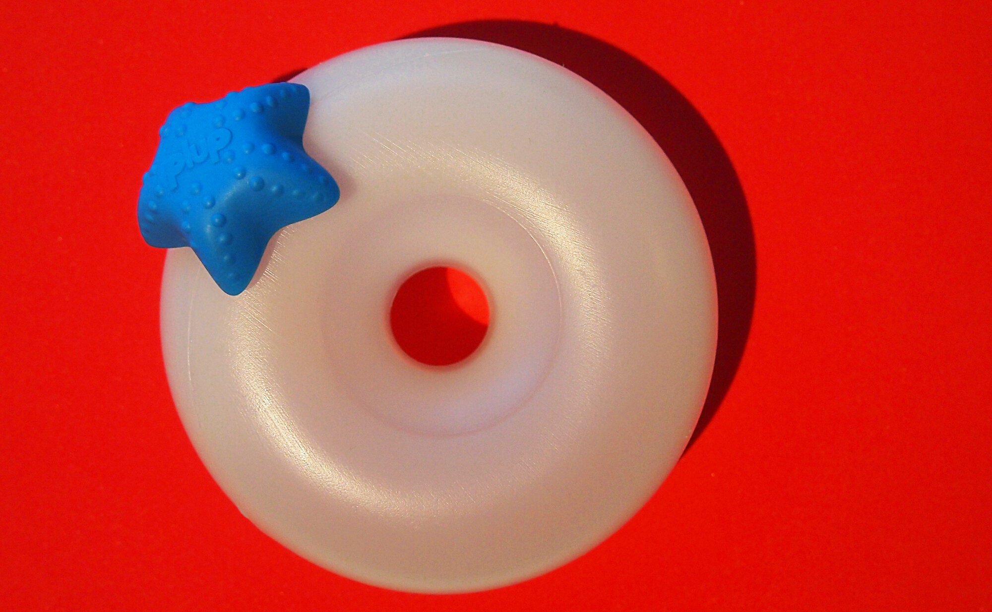 Plup-bottle. Designed by Stefan Lindfors 2008. Manufactured by Plastex.